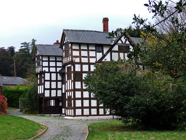 Plas yn Pentre Plas yn Pentre was a Grange belonging to Valle Crucis Abbey. On the dissolution of the abbey in 1536 it came into the possession of the High Sheriff of Denbighshire, Ieuan Edwards. His grandson partially re-built the house in 1634 and his initials and the date can be seen carved into the exterior of the west gable. The property has recently been sold, and is a private dwelling.